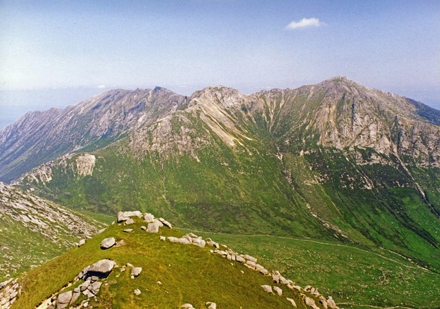 Goatfell Massif Taken from A'Chir looking across Glen Rosa.